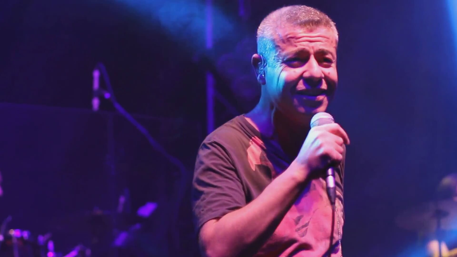 Levent Yüksel in a concert in Istanbul 2014